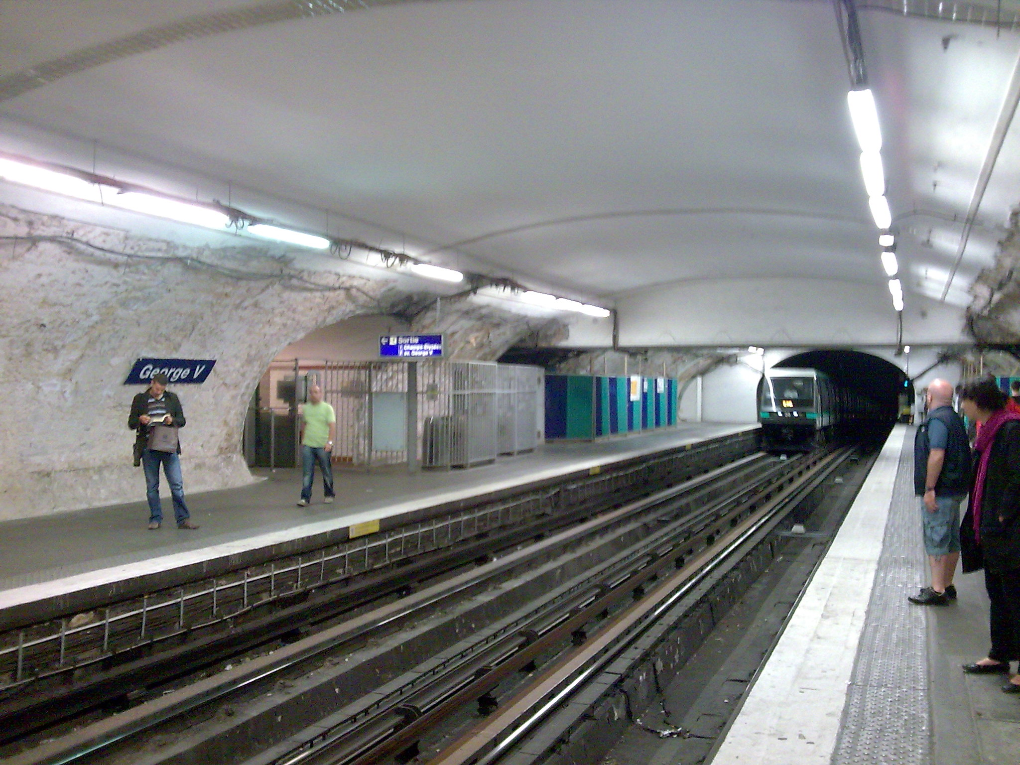 George V station of line 1.